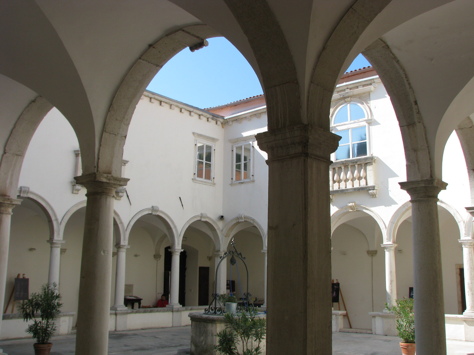 Atrium of Franciscan monastery, Piran